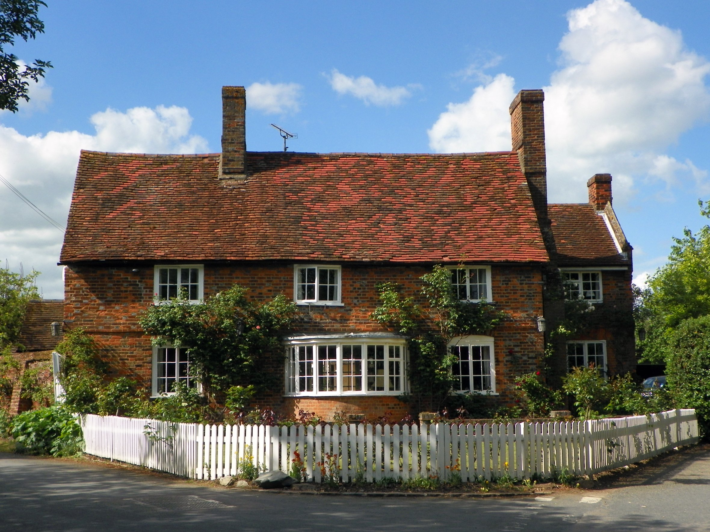 The Chequers, Preston, Hertfordshire, 9 May 2011. Apparently this used to be a public house but was closed in 1959, then renovated and extended in the 1960s. The building dates to the 17th century or earlier, and is a Grade II listed building.